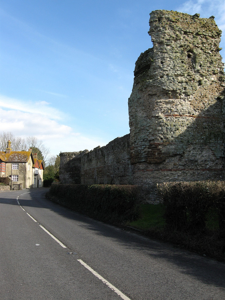 Bastion, Outer Walls, Pevensey Castle Parts of the outer walls date from the 4th century and were built up and strengthened during the medieval period. This bastion was added in the early Tudor period and has modifications from World War Two where the former gaps were filled in and a machine gun post, which is just visible, was added to cover the levels. The house on the left is The Gables and dates from the late 19th century and the road is the B2191 which was the A27 up to 1993.